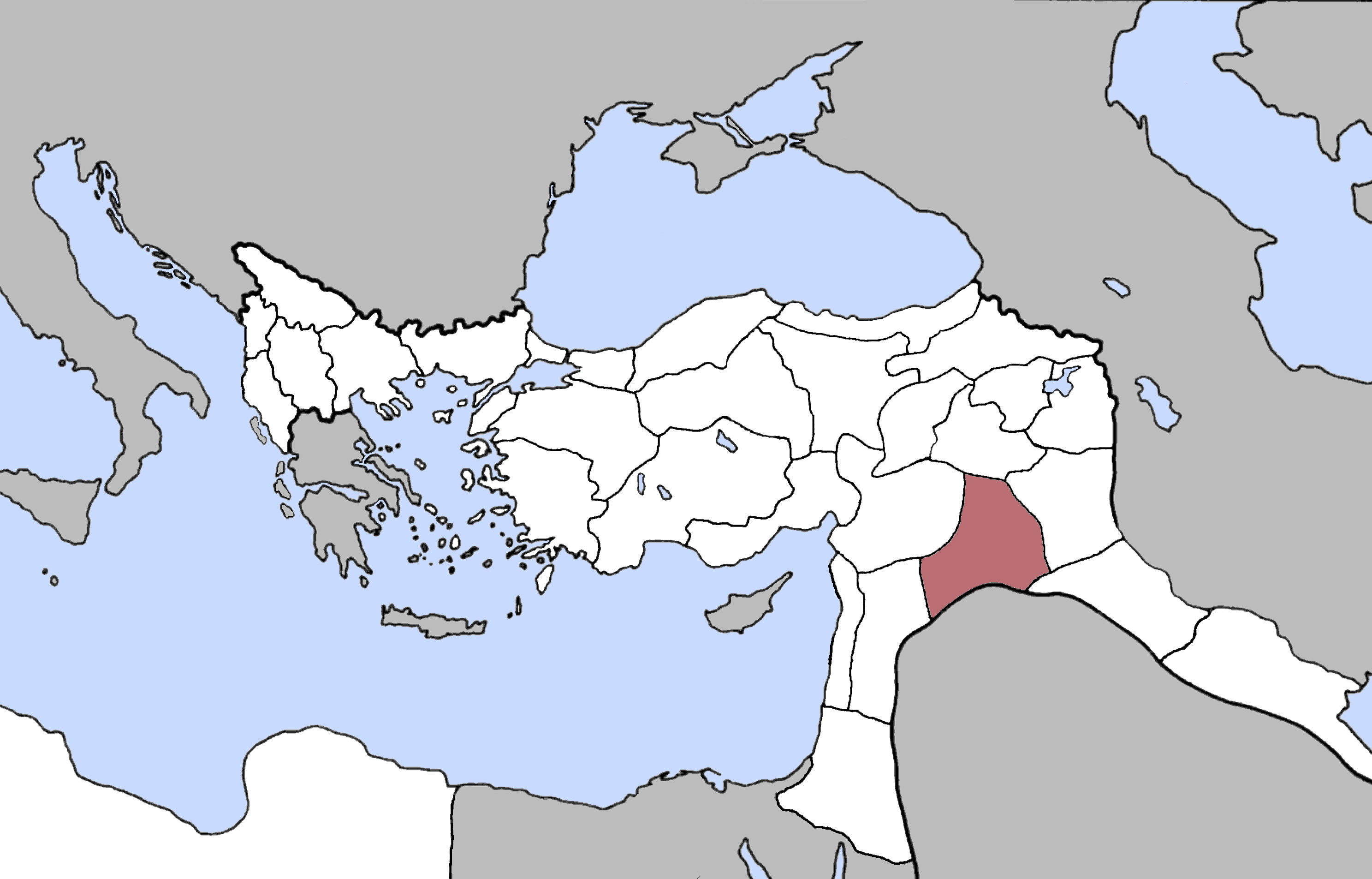 XY Vilayet, Ottoman Empire (1900). Source: An Economic and Social History of the Ottoman Empire, Volume 2 at Google Books By Suraiya Faroqhi, Bruce McGowan, Donald Quataert, Sevket Pamuk